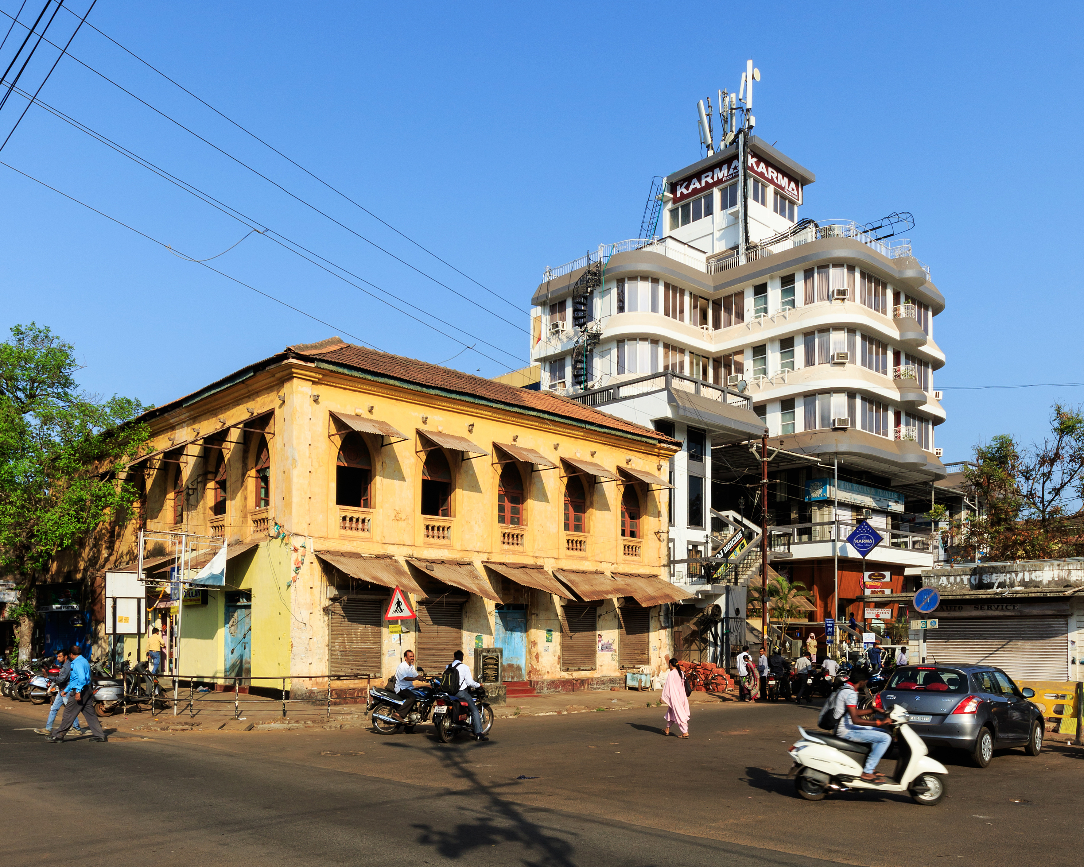 Buildings in Vaddem / Vasco da Gama (Goa), India